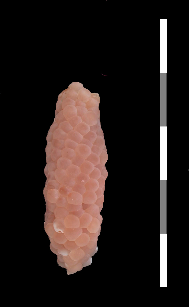 photo of eggs of Pomacea diffusa. Scale Bar: 5 cm.